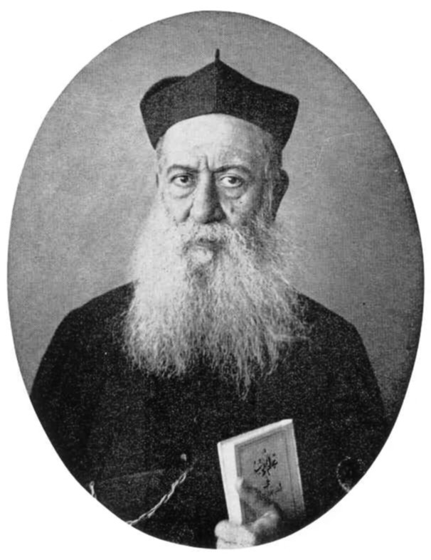 Louis Cheikho (1859-1929) is a chaldeen Jesuit, orientalist and arab scholar.